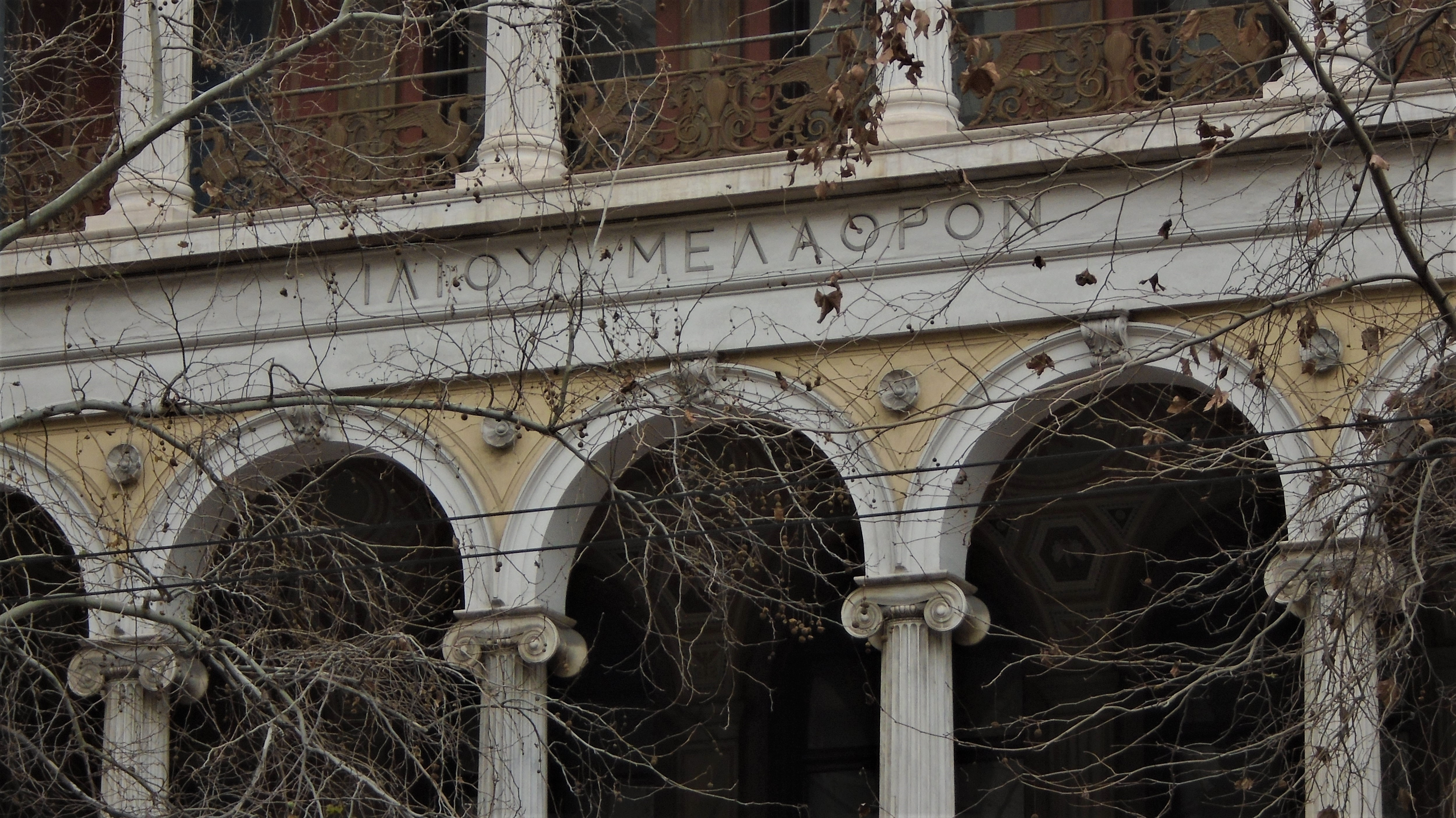 Façade detail of Heinrich Schliemann's "Palace of Troy" (ΙΛΙΟΥ ΜΕΛΑΘΡΟΝ) mansion, built in 1880 to a design by architect Ernst Ziller (1837-1923), incorporating both neorenaissance and neoclassical features.